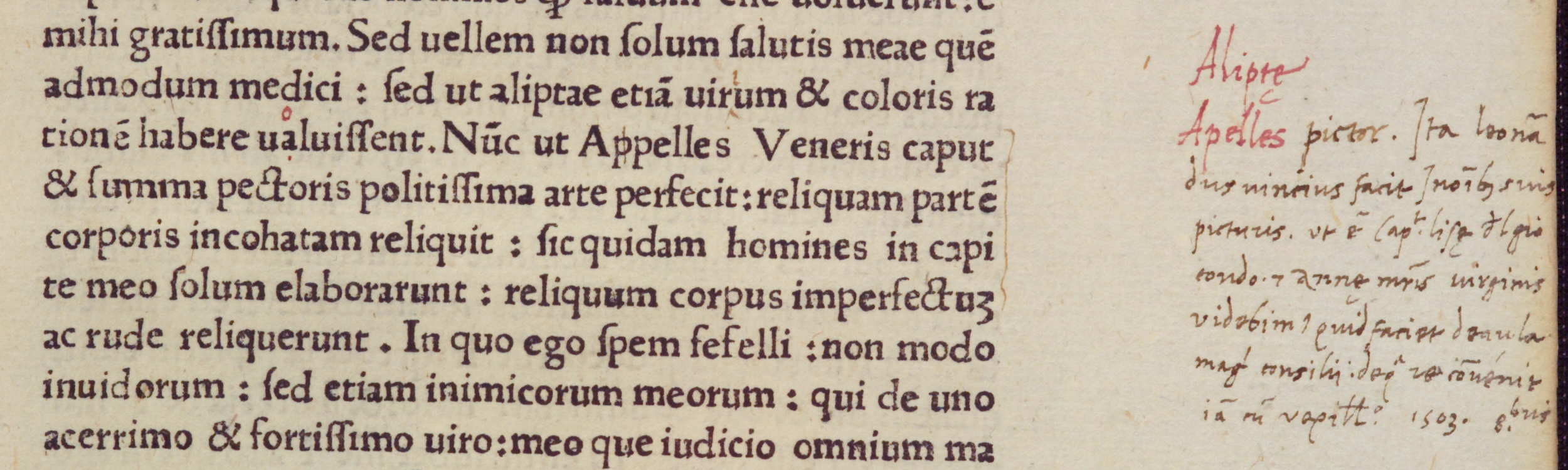 A margin note, discovered in the University Library of Heidelberg, which proved that Lisa del Giocondo was the subject of Mona Lisa.